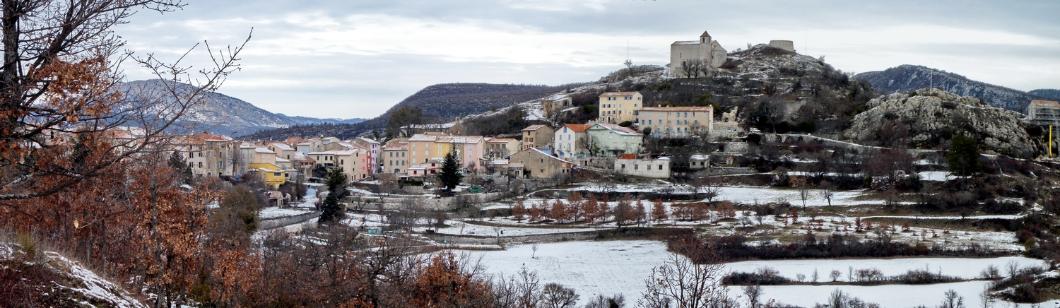 Panoramic viw on Comps-sur-Artuby village in winter